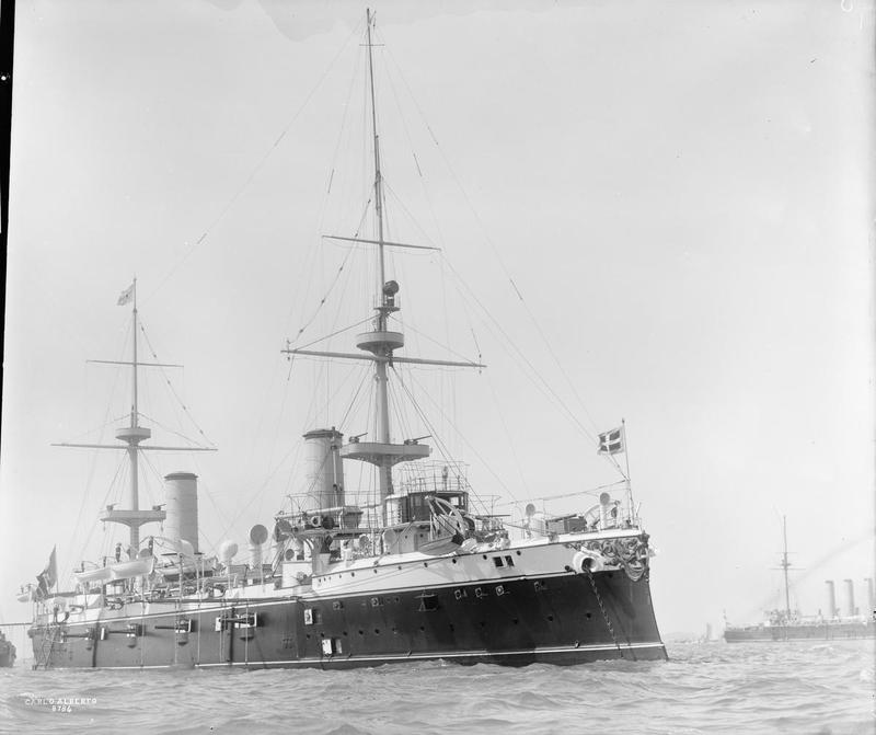 Photograph of Italian armoured cruiser Carlo Alberto.